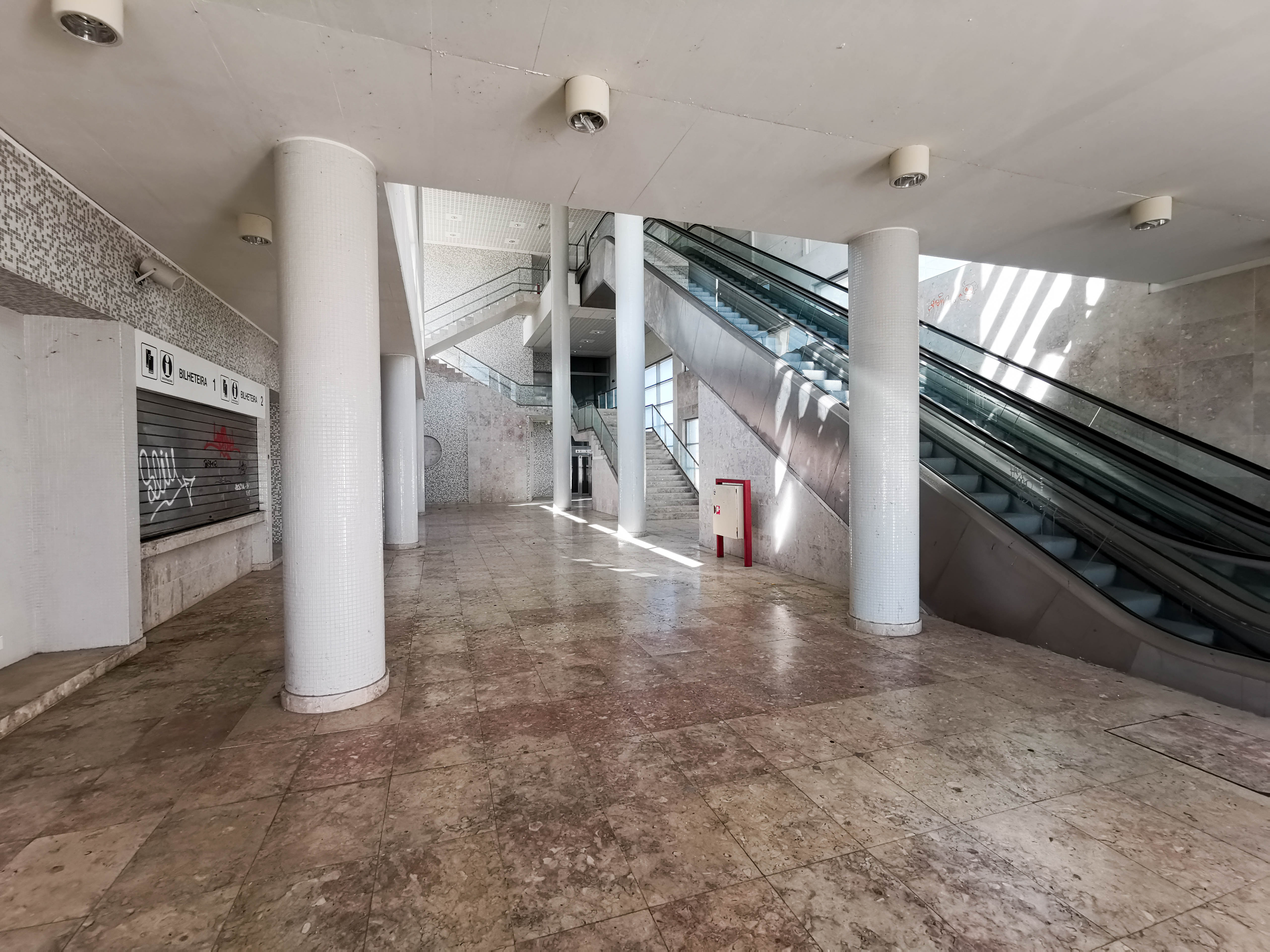 Entrance of Castanheira do Ribatejo train station